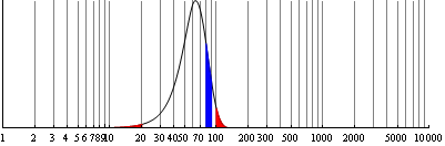 A narrow probability distribution plotted on a log scale, to demonstrate a case where Benford's law does not hold. This is to be contrasted with BenfordBroad.gif.